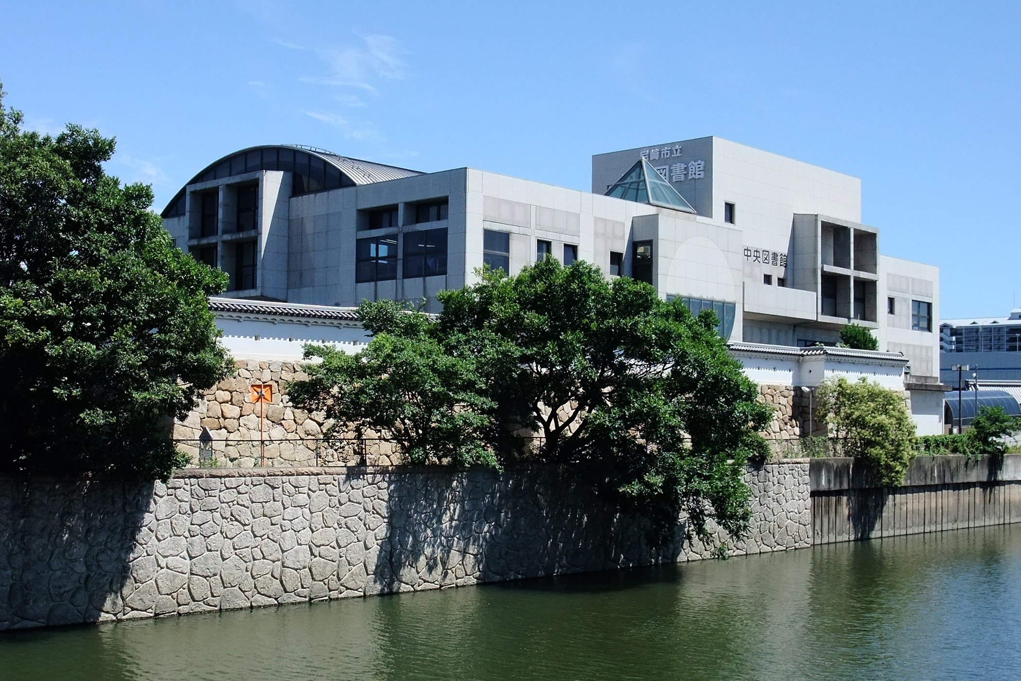 Amagasaki City Library in Amagasaki, Hyogo prefecture, Japan